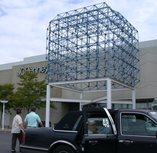 A man emerges from car service outside the Staten Island Mall in Staten Island, New York © 2004 Matthew Trump